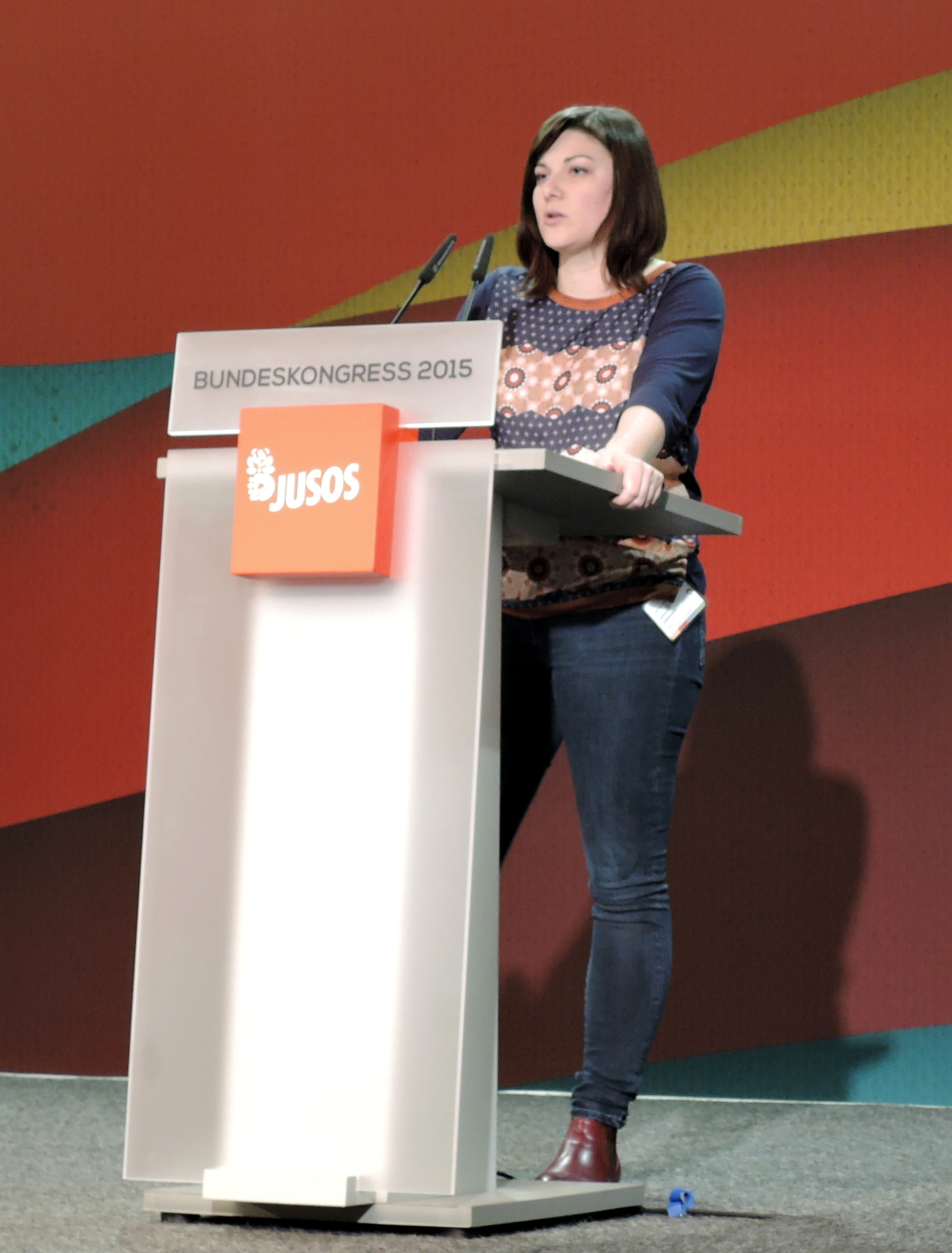 The chairwoman of the Jusos, Johanna Uekermann